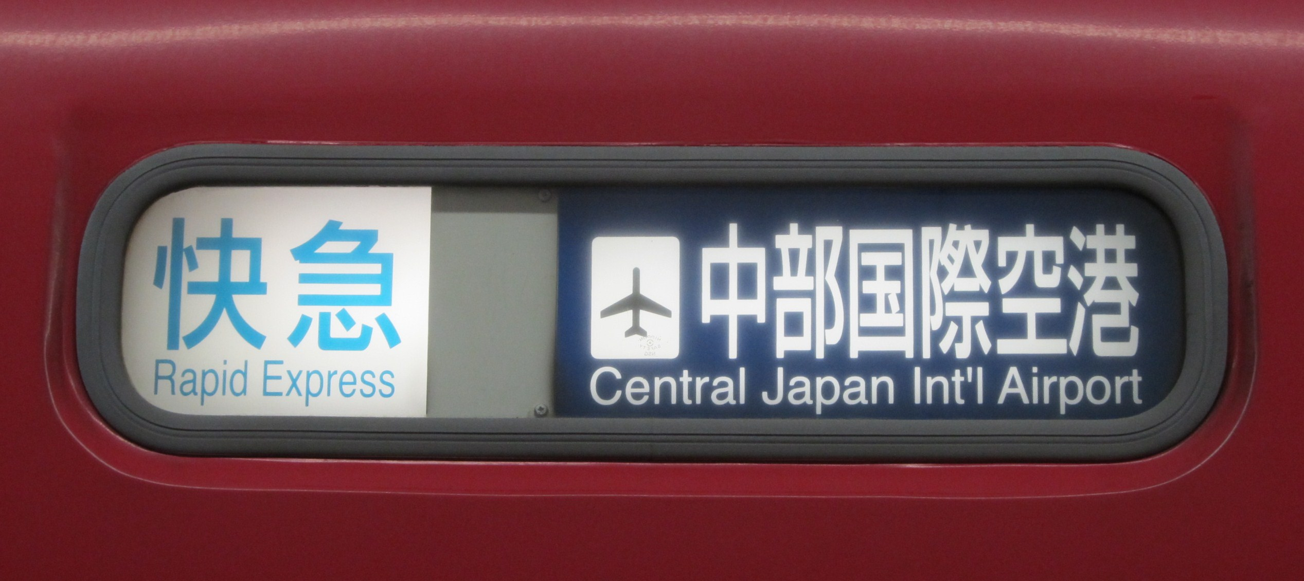 Rollsign of Nagoya Railroad Series 6500 or 6800. Rapid Express bound for Central Japan International Airport.